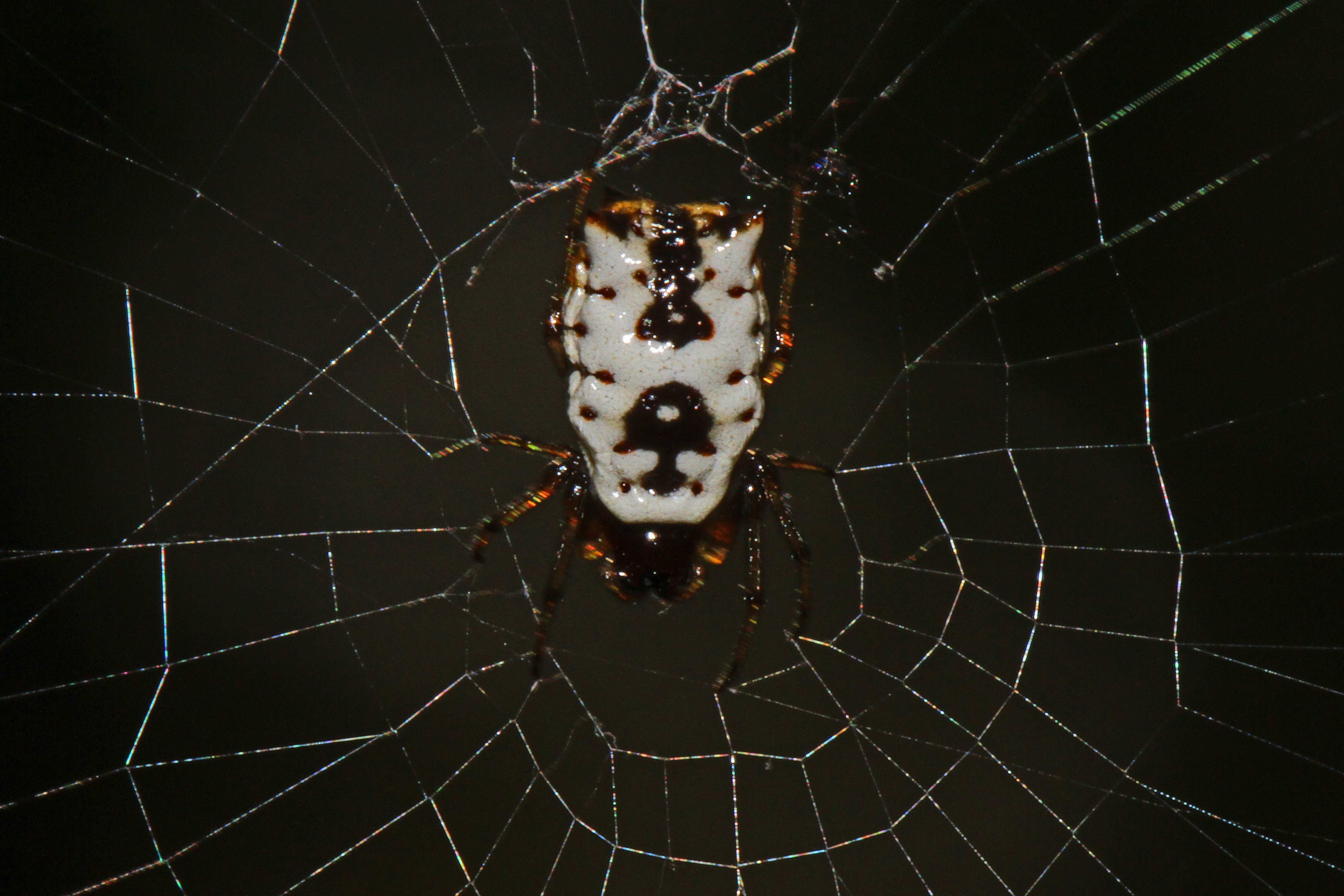 White Micrathena - Micrathena mitrata, Little River Canyon National Preserve, Fort Payne, Alabama